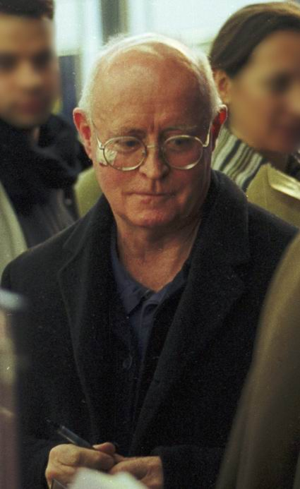 Edward Bond at the Théâtre National de la Colline, Paris, January 2001